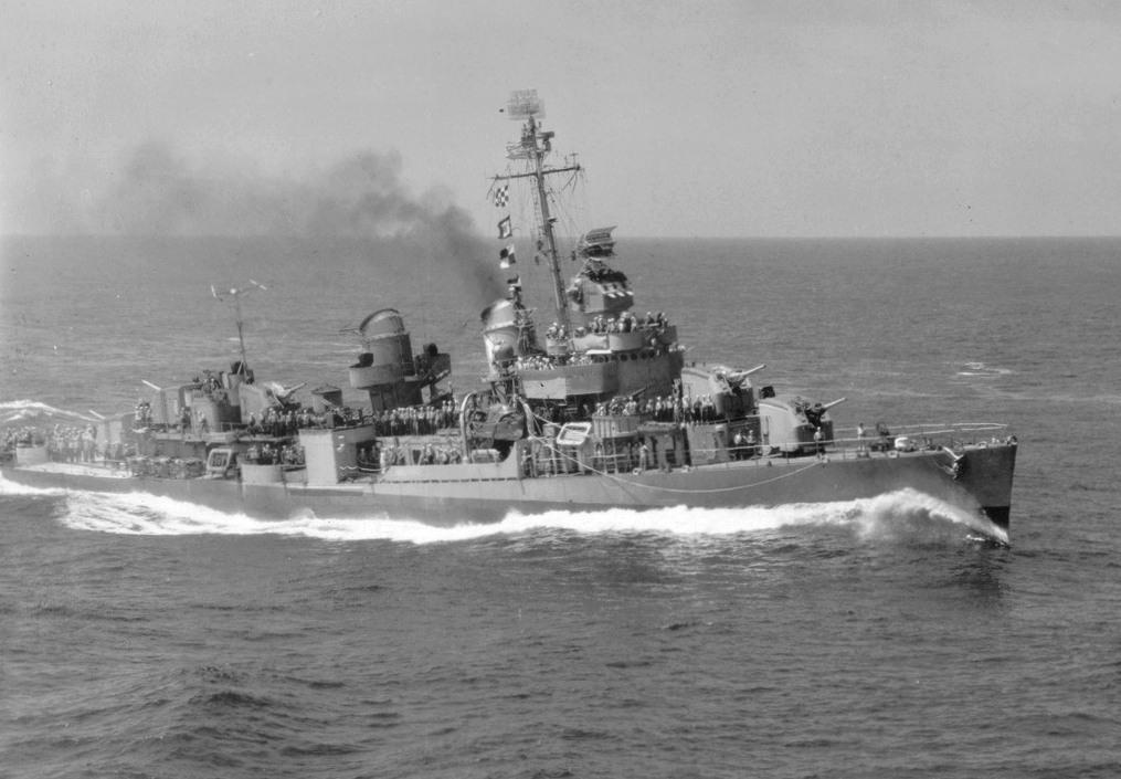 The U.S. Navy destroyer USS Schroeder (DD-501) underway in the Pacific Ocean on 9 October 1945. The photo was taken from the aircraft carrier USS Randolph (CV-15).